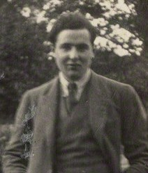 John Strachey